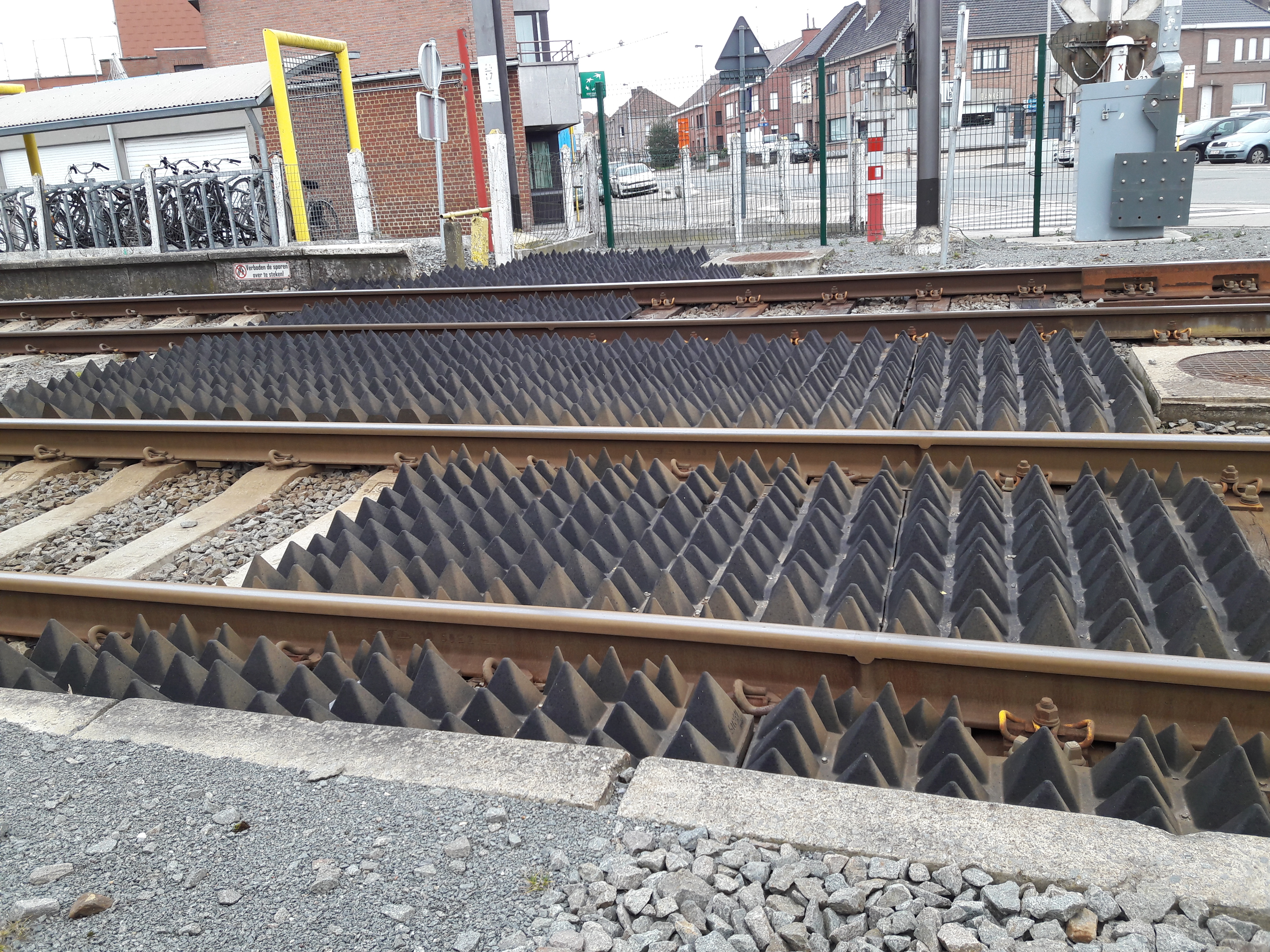 Stumbling mats at level crossing. The pointed mat should make it impossible to cross the tracks.